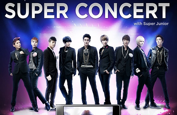 Super Junior (cropped)